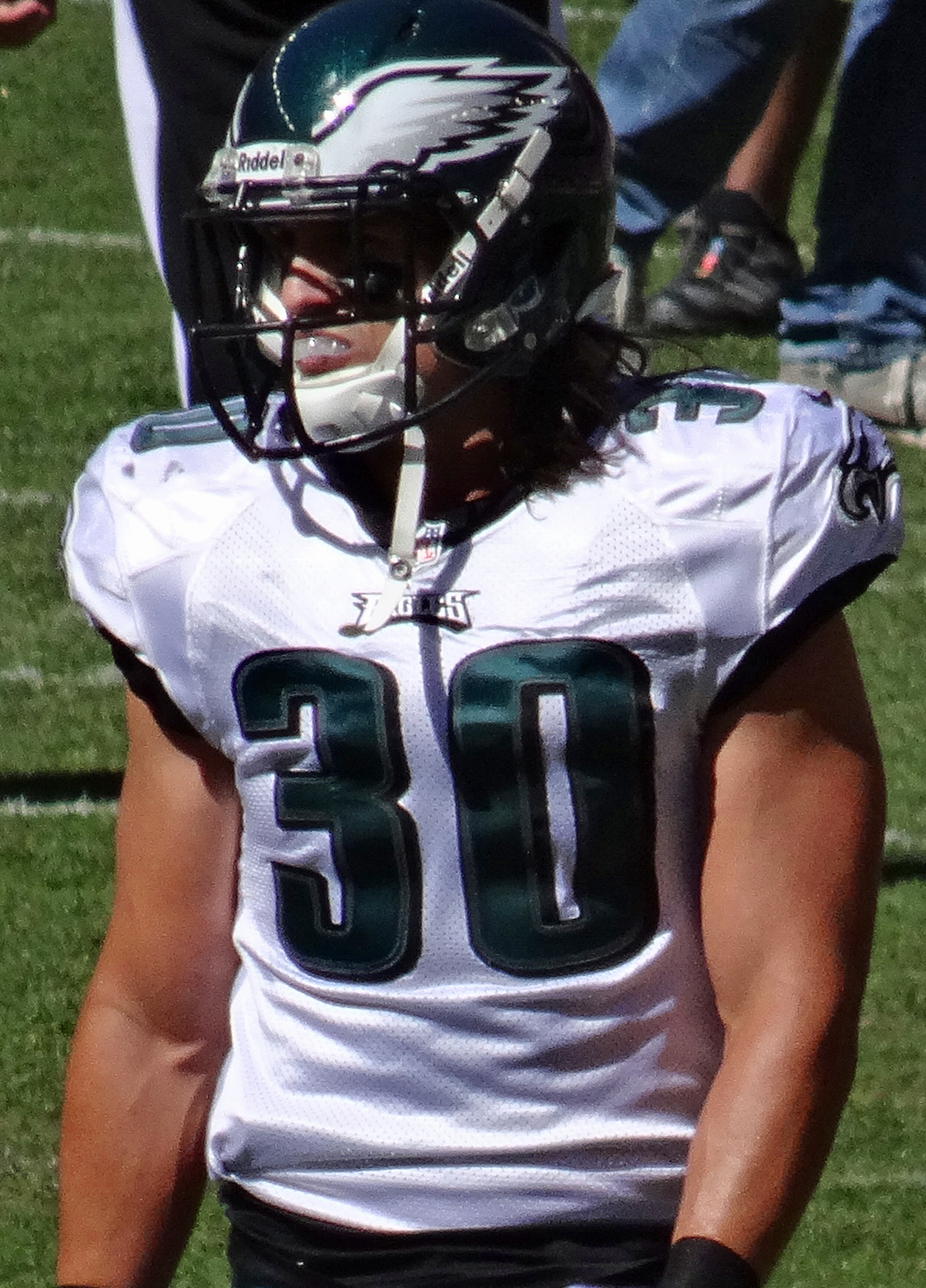 Colt Anderson, a player on the National Football League.